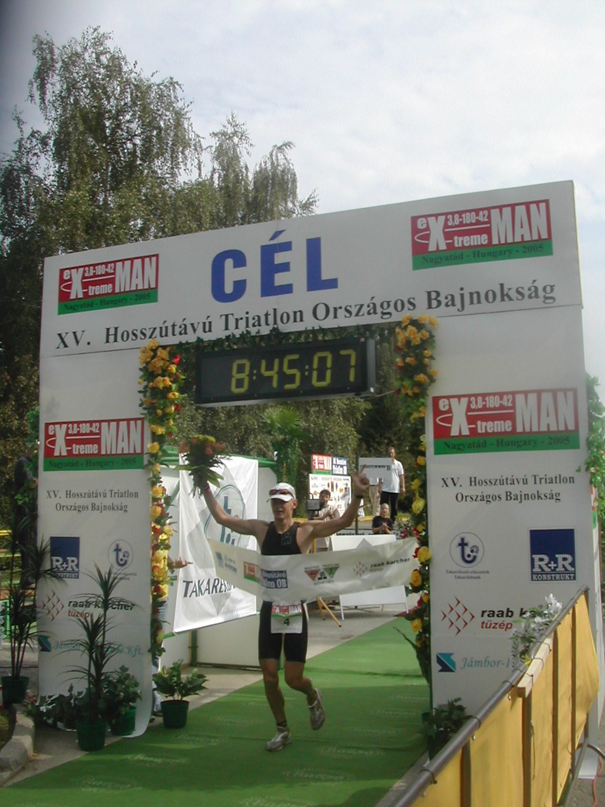 József Major wins the Hungarian long distance championship in triathlon / Major József megnyeri a nagyatádi hosszú távú triatlonversenyt